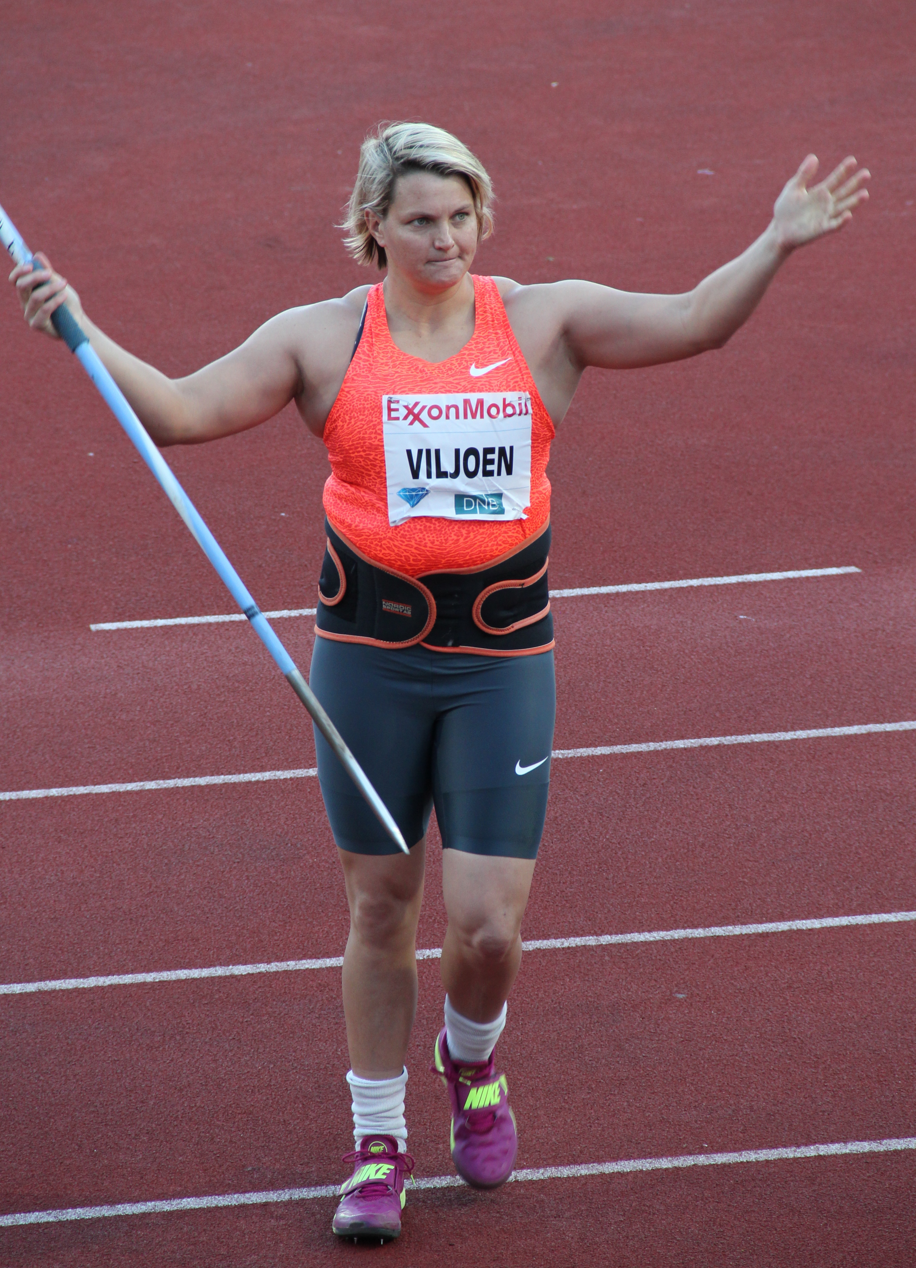 Sunette Viljoen, South African javelin thrower at the 2015 Bislett Games